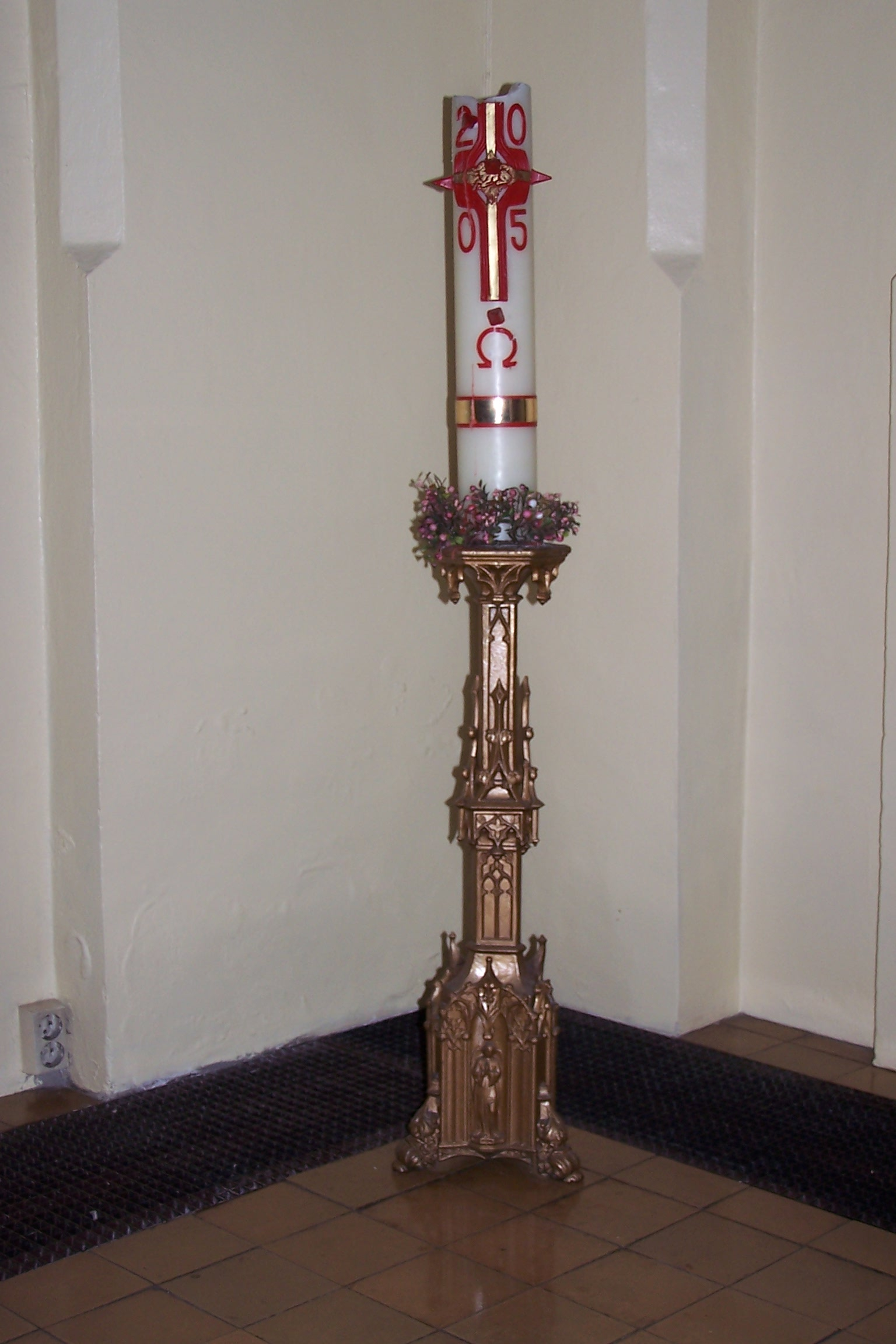 Paschal candle in St. Olav's Cathedral, Oslo Photo Chris Nyborg, February 2006